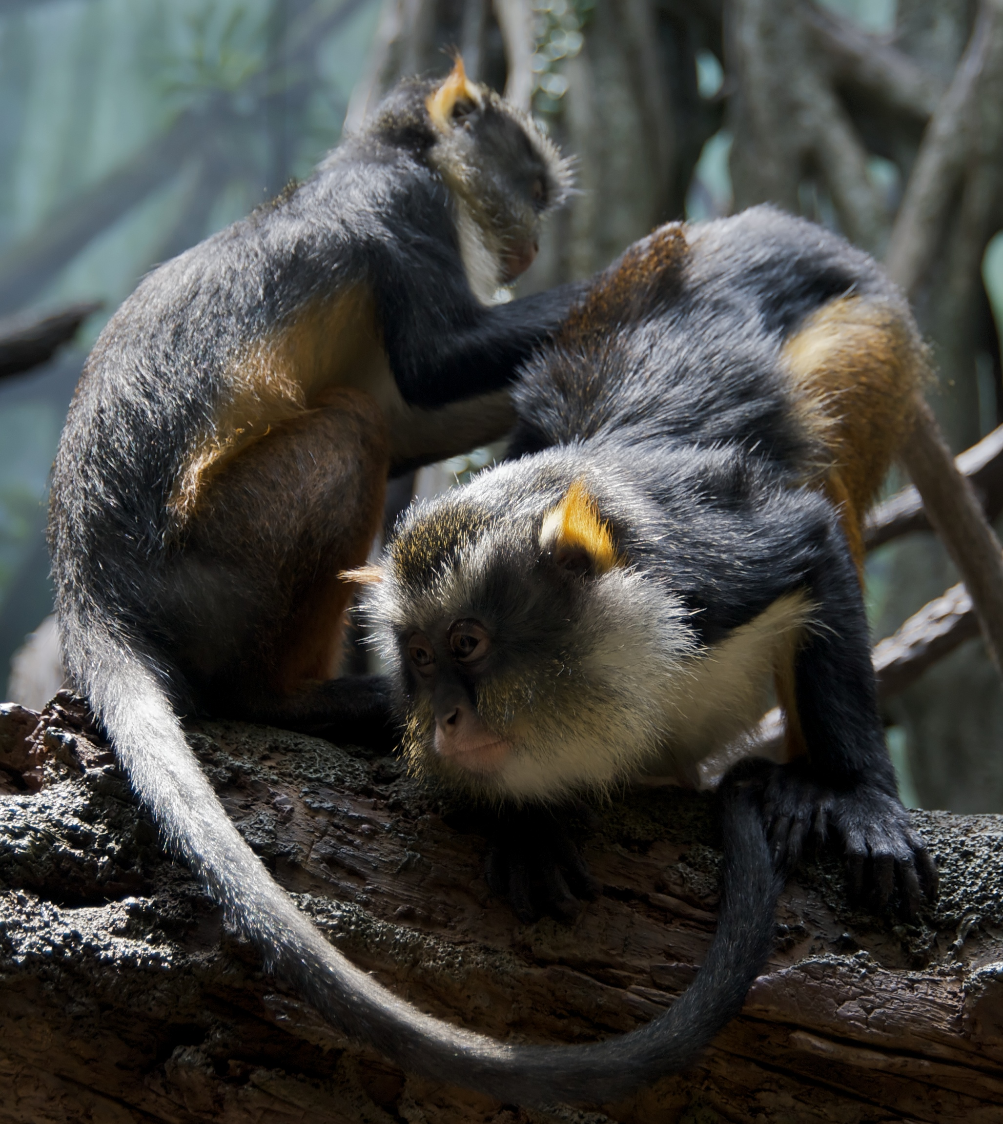 Wolf's Mona Monkey at the Bronx Zoo. This is a cropped version of File:Wolfs Mona Monkey Cercopithecus wolfi Bronx Zoo 4.jpg